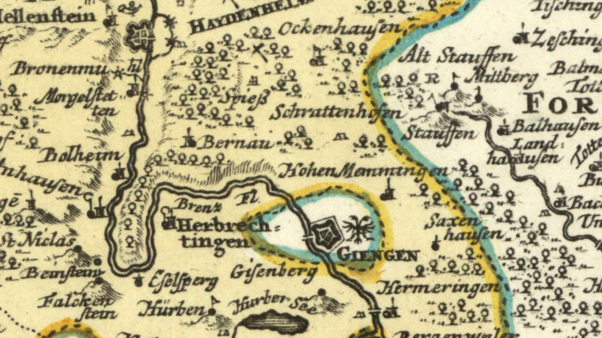 Detail cropped out of an early 18th century map showing the small territory of the Free Imperial City of Giengen (now Giengen an der Brenz). Giengen was entirely surrounded by the Württemberg exclave of Heidenheim and was never able to acquire a hinterland like most other free imperial cities. The stylized black double-headed eagle indicates Giengen's status as an imperial city. Cropped from a map originally designed by Johannes Mejer (1606-1674) and published by Johann Baptist Homann c. 1710. The map is titled Ducatus Wurtembergici.